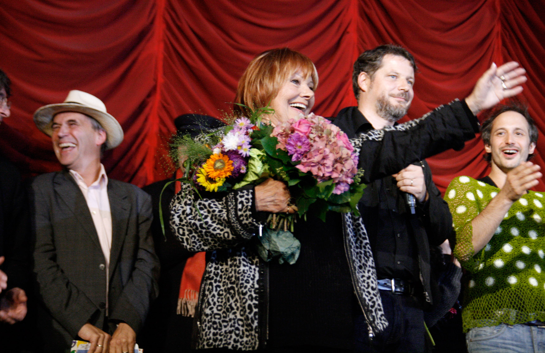 Elfriede Ott, Michael Ostrowski, Andreas Prochaska and the Kollegium Kalksburg Trio at the premiere of the movie Die unabsichtliche Entführung der Frau Elfriede Ott at the Gartenbaukino in Vienna.